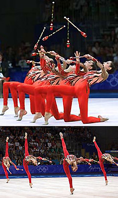 Greece's Rhythmic Gymnastics Group perform with Clubs at the 2000 Sydney Olympics